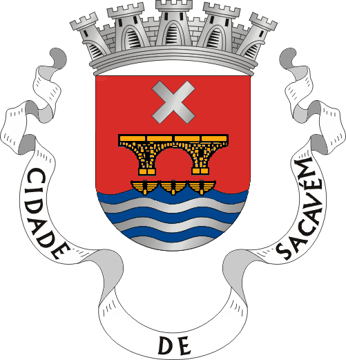 Crest of Sacavém parish, Loures municipality (Portugal) Made by User:Brian Boru, based on a crest of Sérgio Horta